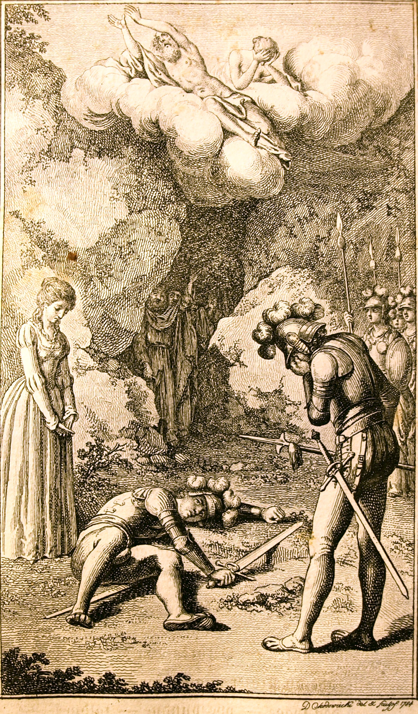 Illustration from Johannes Ewalds "The Death of Balder" showing Nanna crying to the left, the dead Balder in the center, Hother covering his face with his hand to the right, Odin and Frigga despairing in the sky, the valkyries with their spears to the right and Thor and the other Æsir in the center background. Engraving by Chodowiecki.